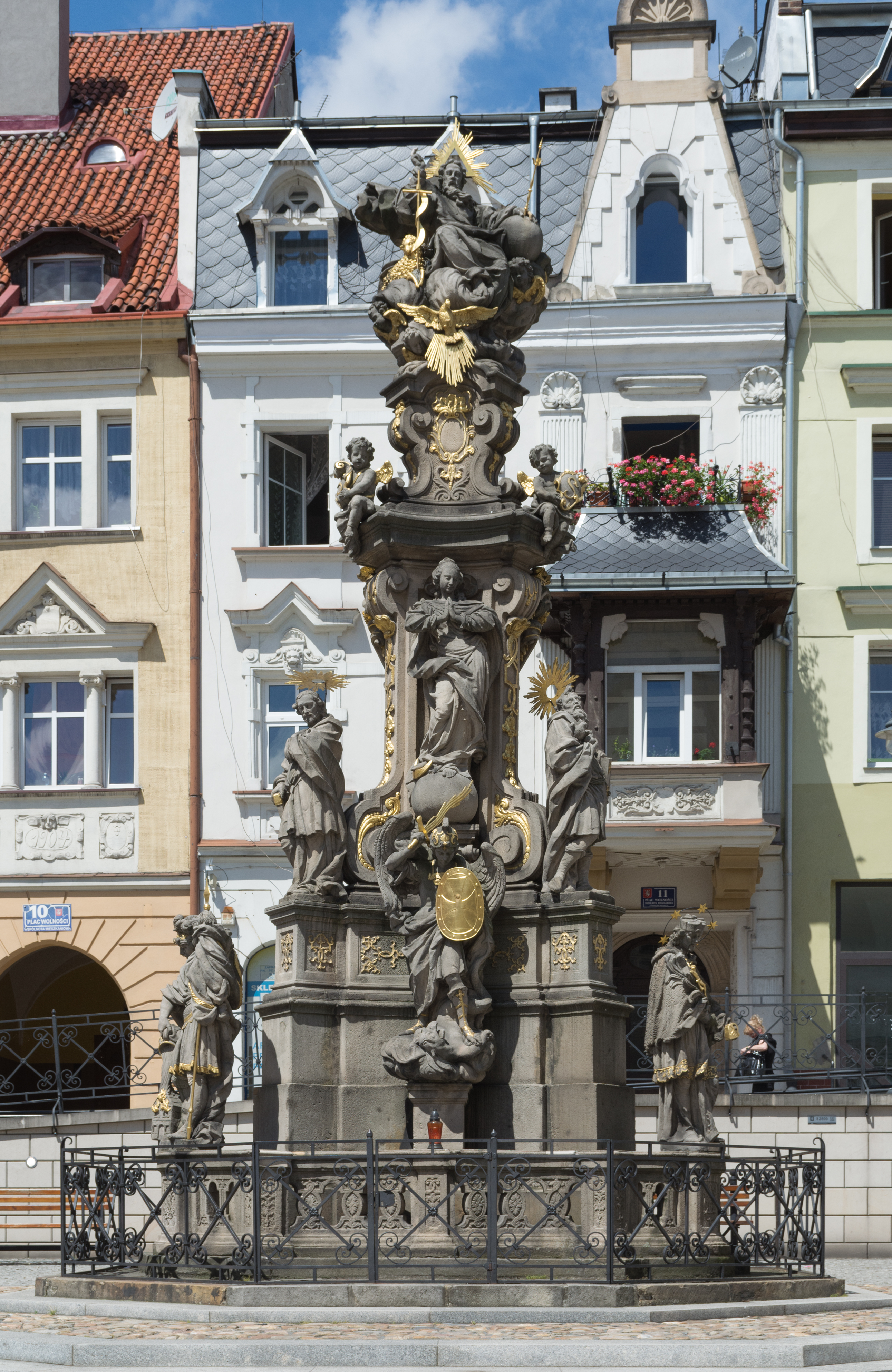 Trinity Column in Bystrzyca Kłodzka